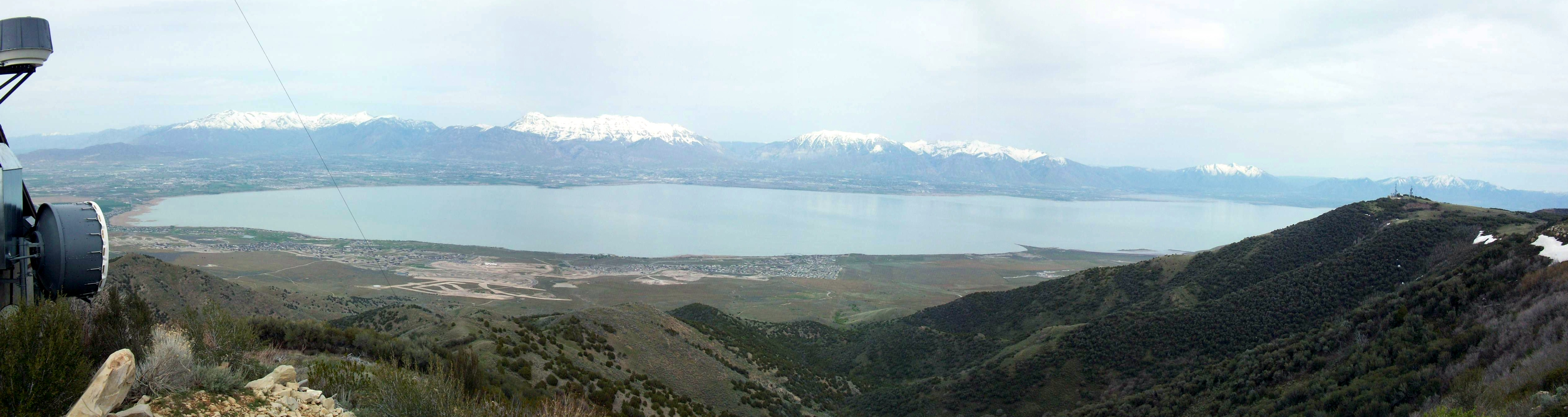 Utah Valley & Lake, from Lake Mountain-(Lake Mountains). View ESE of Wasatch Range, overlooking Orem, Provo, and Springville, Utah.